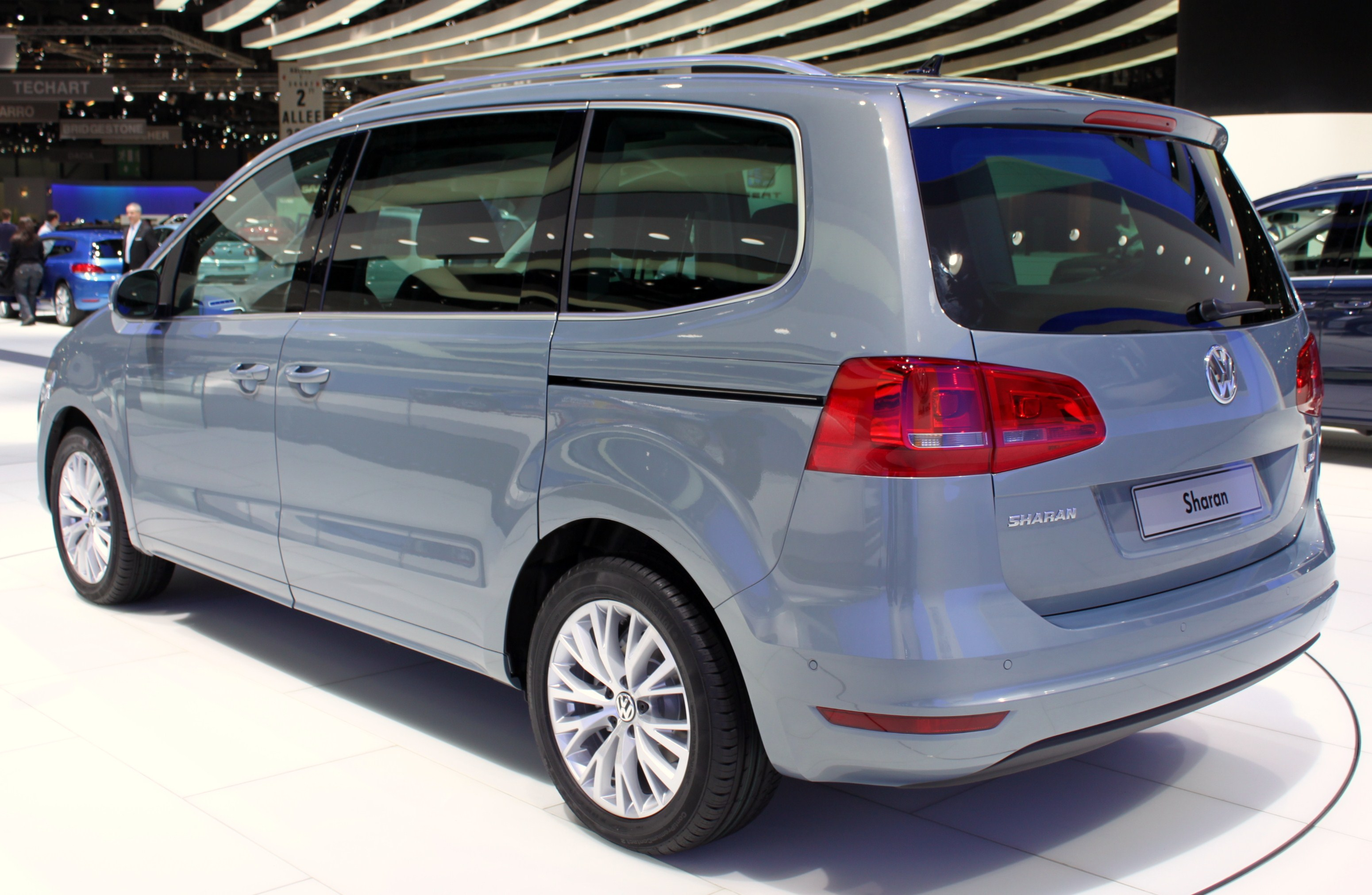 VW Sharan MKII at the 2010 Geneva Motor Show